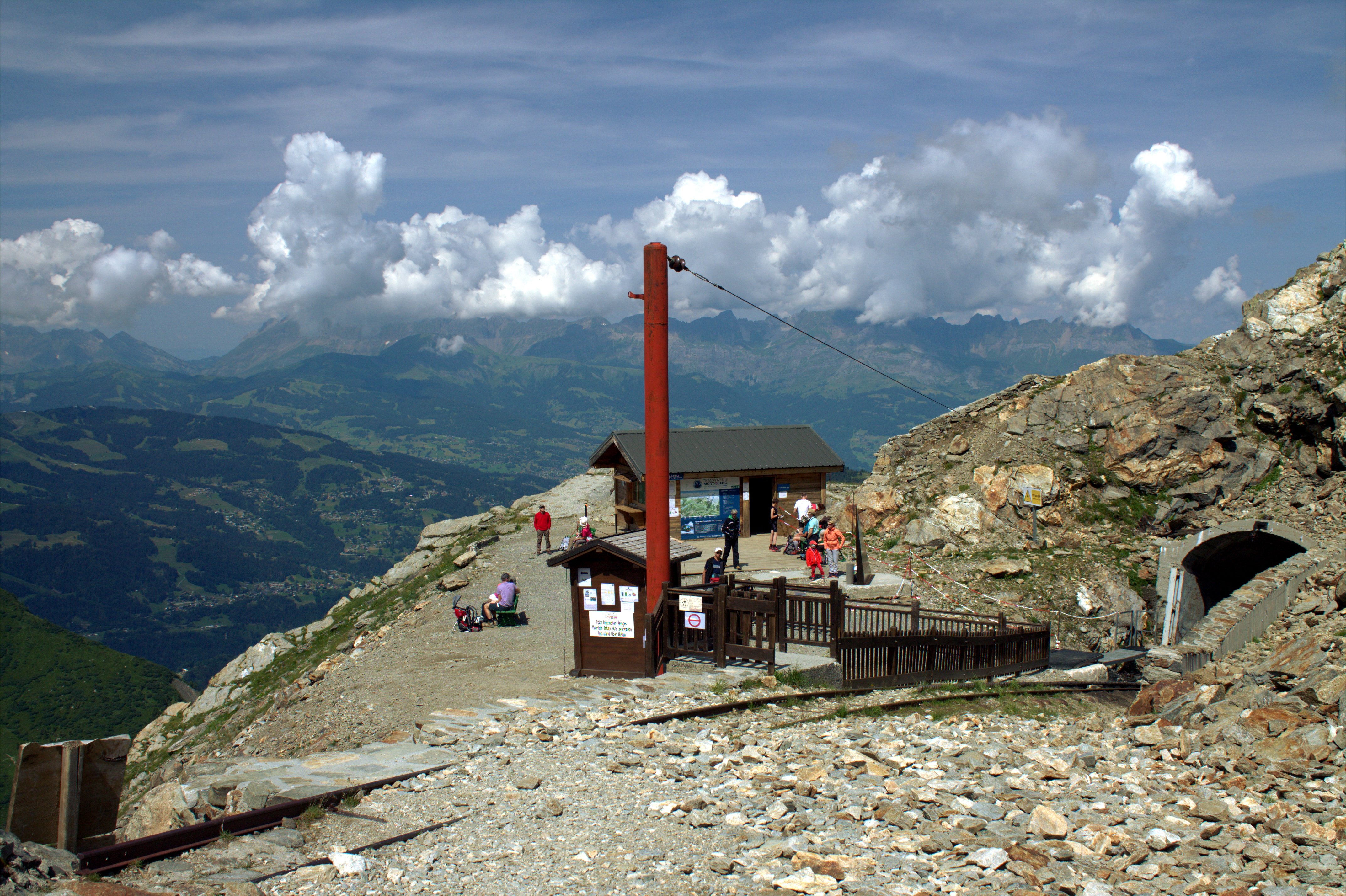 The Nid d'Aigle, or Eagle's Nest (2,372 m altitude), a rock prominence in the Mont Blanc area, with the terminus of the Mont Blanc tramway and a breathtaking view.